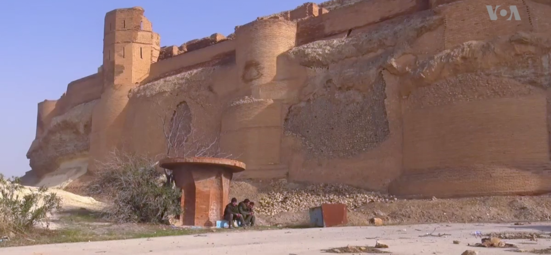 SDF fighters at Jabar Castle after capturing it from ISIL.